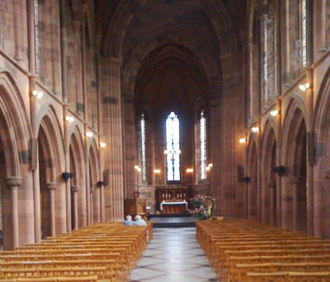 Crichton Memorial Church interior